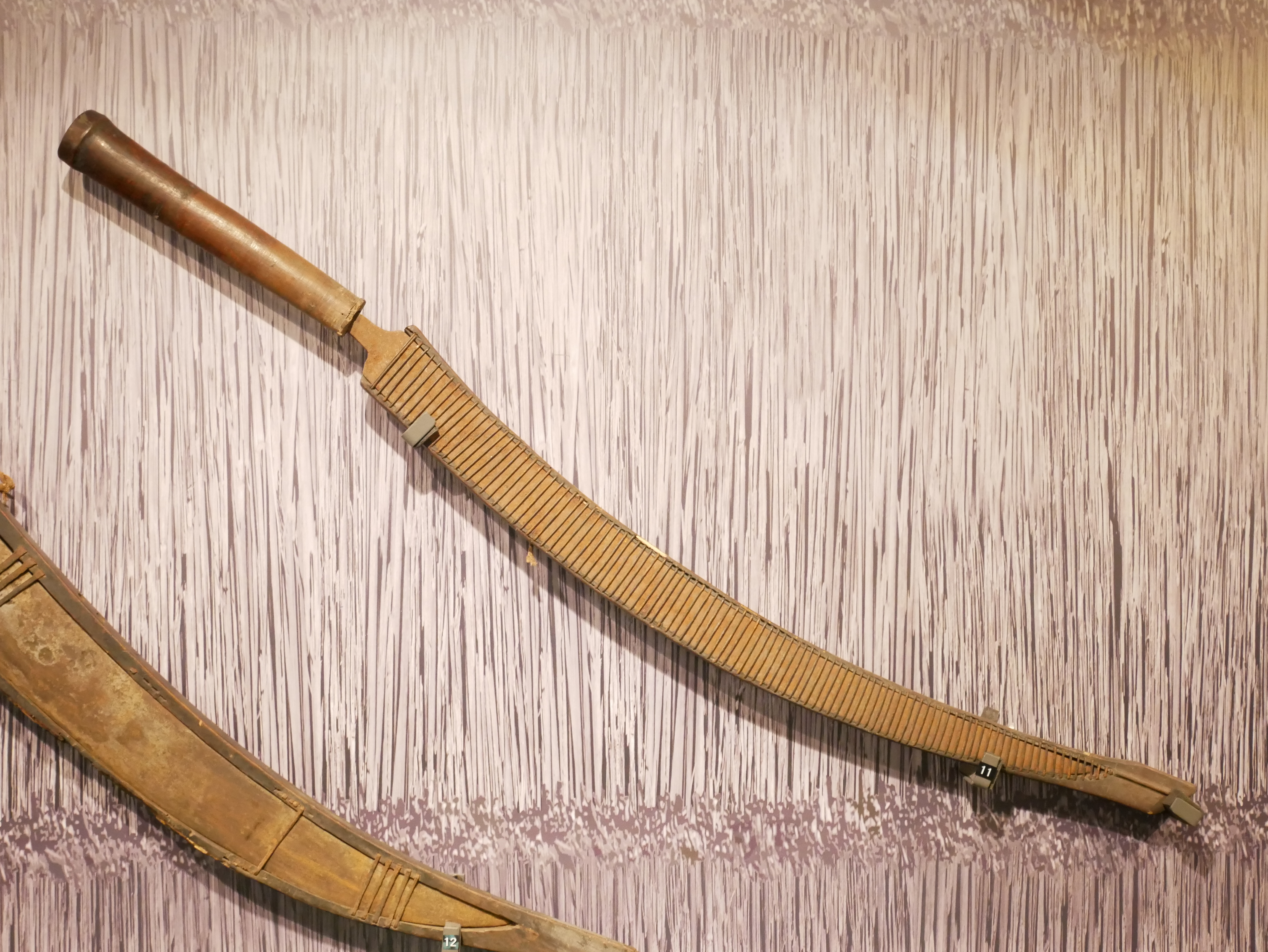 太魯閣族奇卡拉汗社（花蓮港廳花蓮郡蕃地シカラハン社）佩刀，臺北市中正區城內次分區黎明里